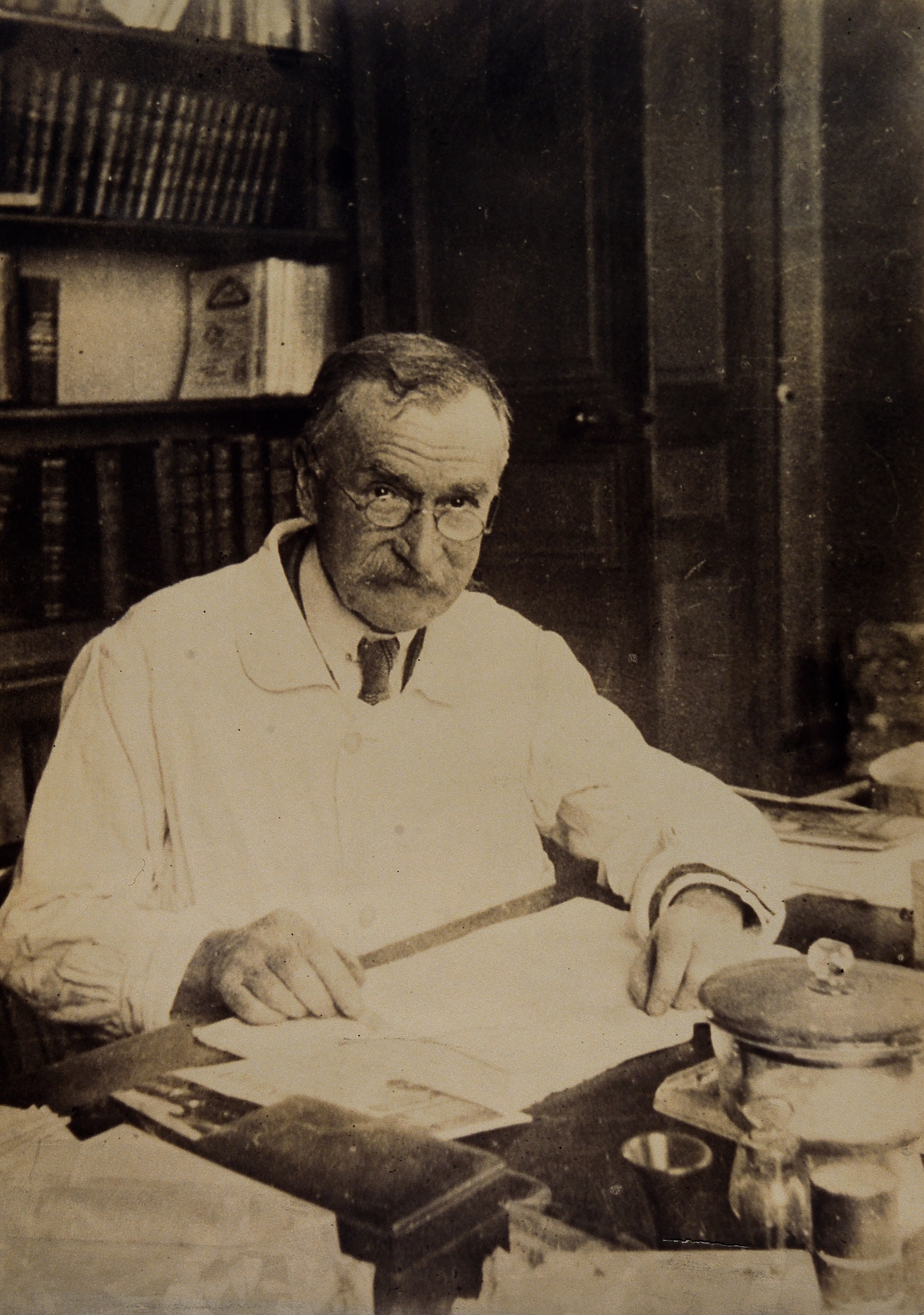 Emmanuel Hédon. Photograph. Iconographic Collections Keywords: portrait photographs